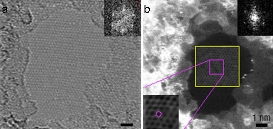 HRTEM of monolayer graphene. (a) Bright filed. (b) High Angle Annular Dark Field